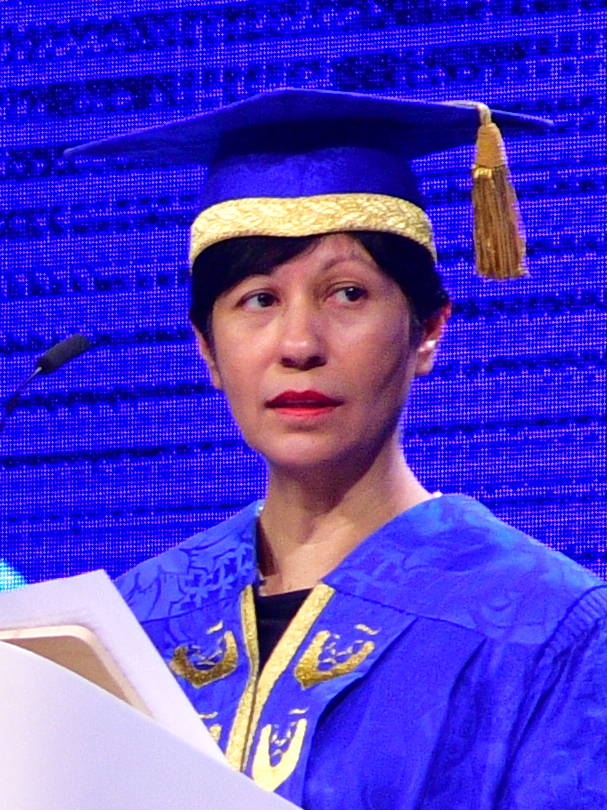 indranee rajah 2018 singapore management university school of law commencement